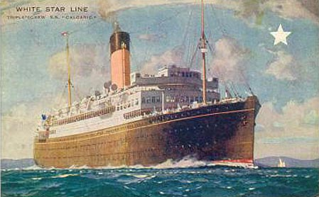 SS Calgaric